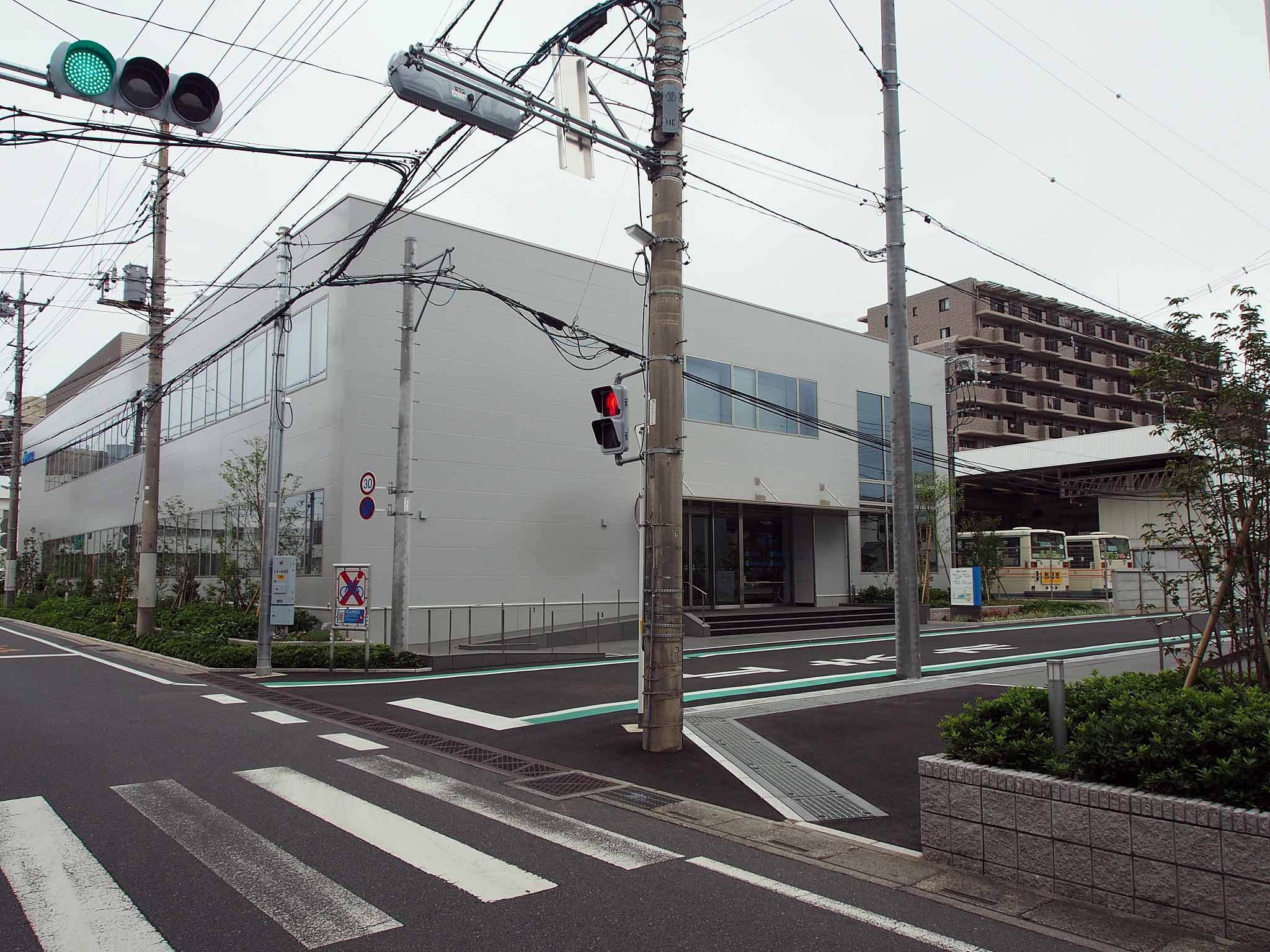 Head office of Seibu Bus Group, located at Kume, Tokorozawa, moved from Kusunoki-dai since 2015.